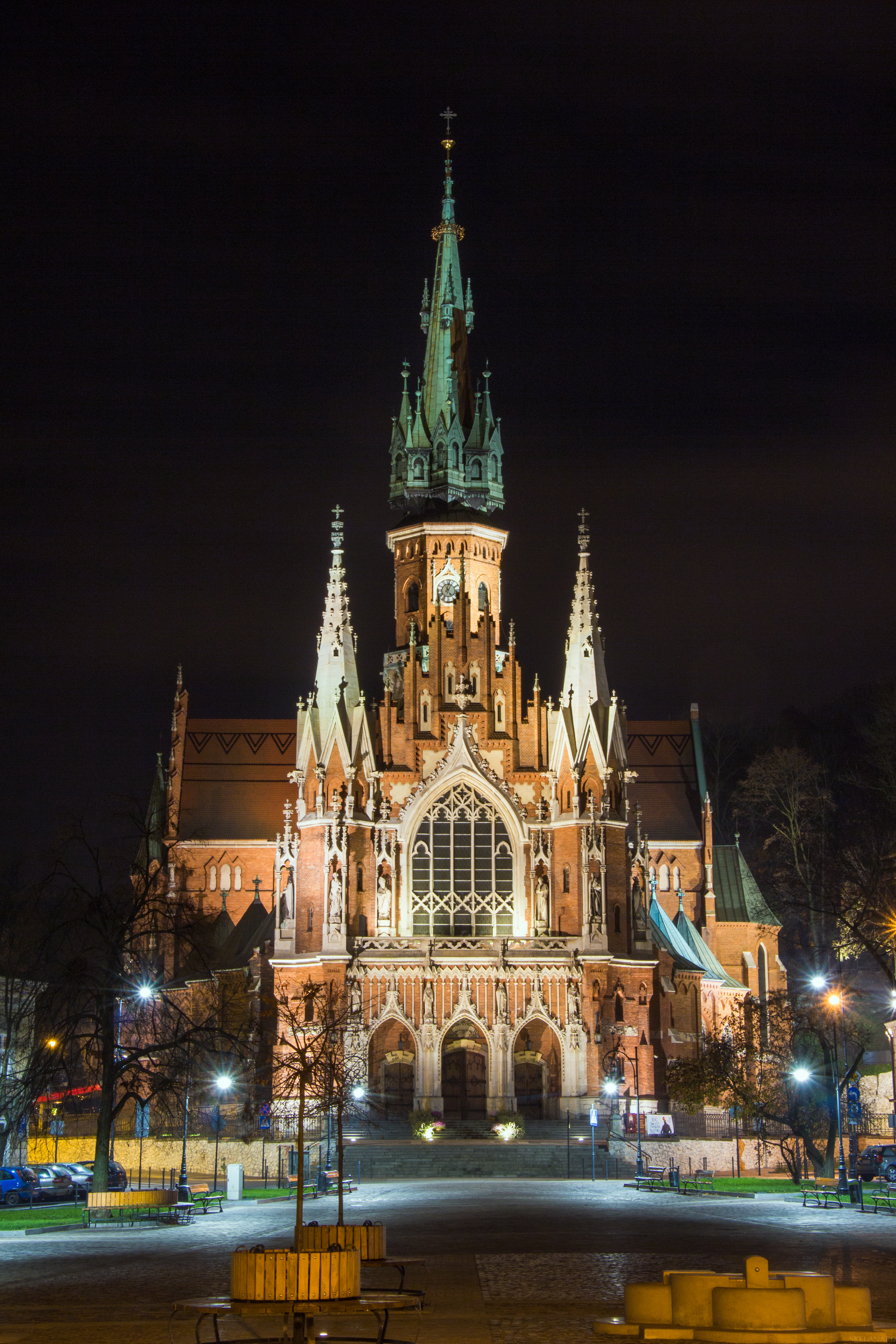 Saint Joseph church in the Stare (Old) Podgórze disctrict, Kraków, Poland